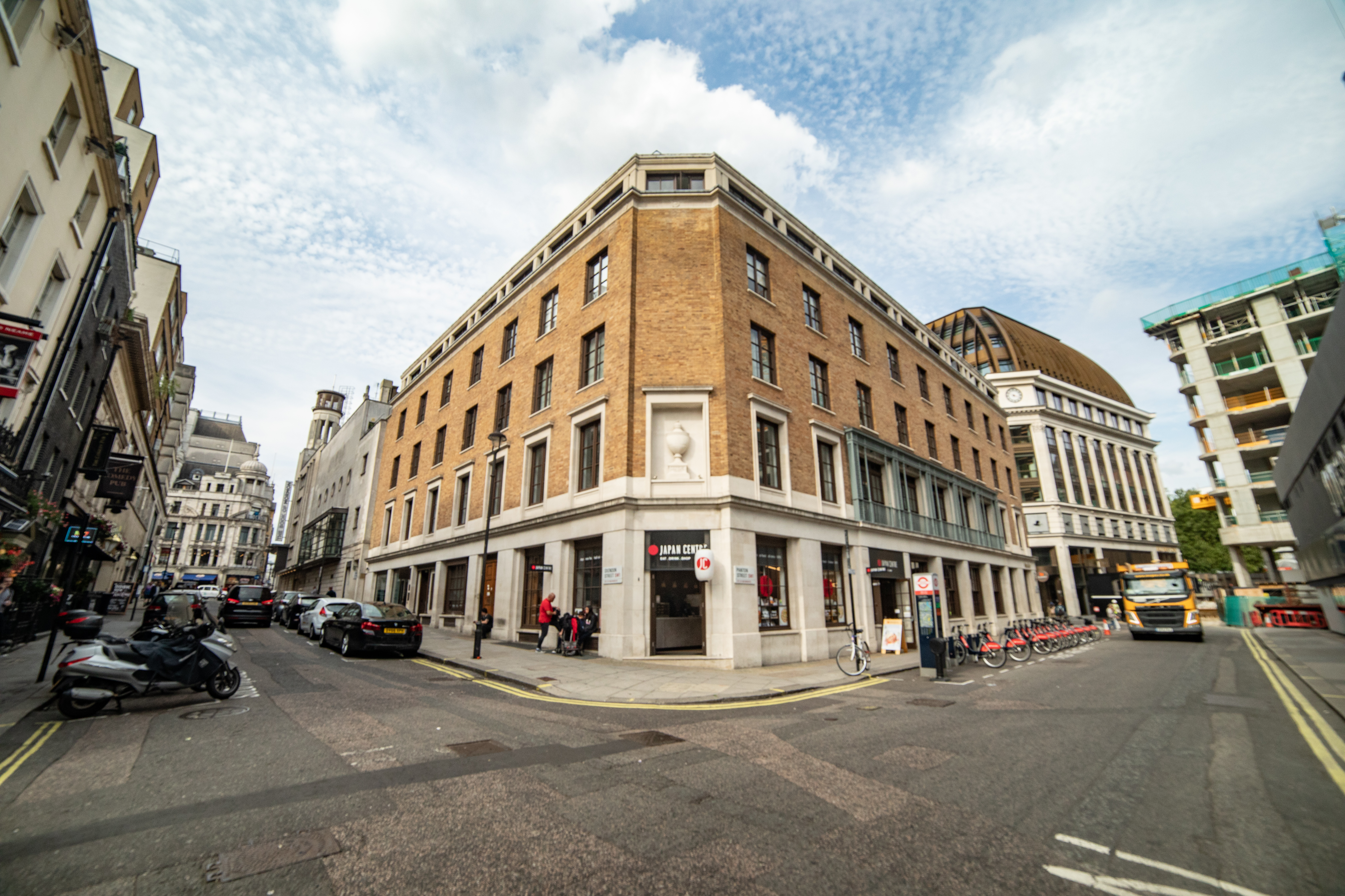 Clareville House Wikidata has entry Q27082352 with data related to this item.